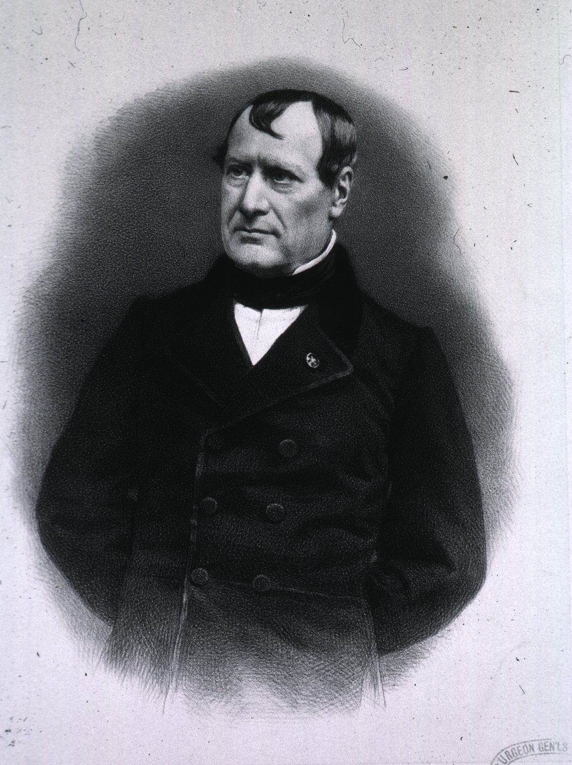 Jean Pierre Flourens